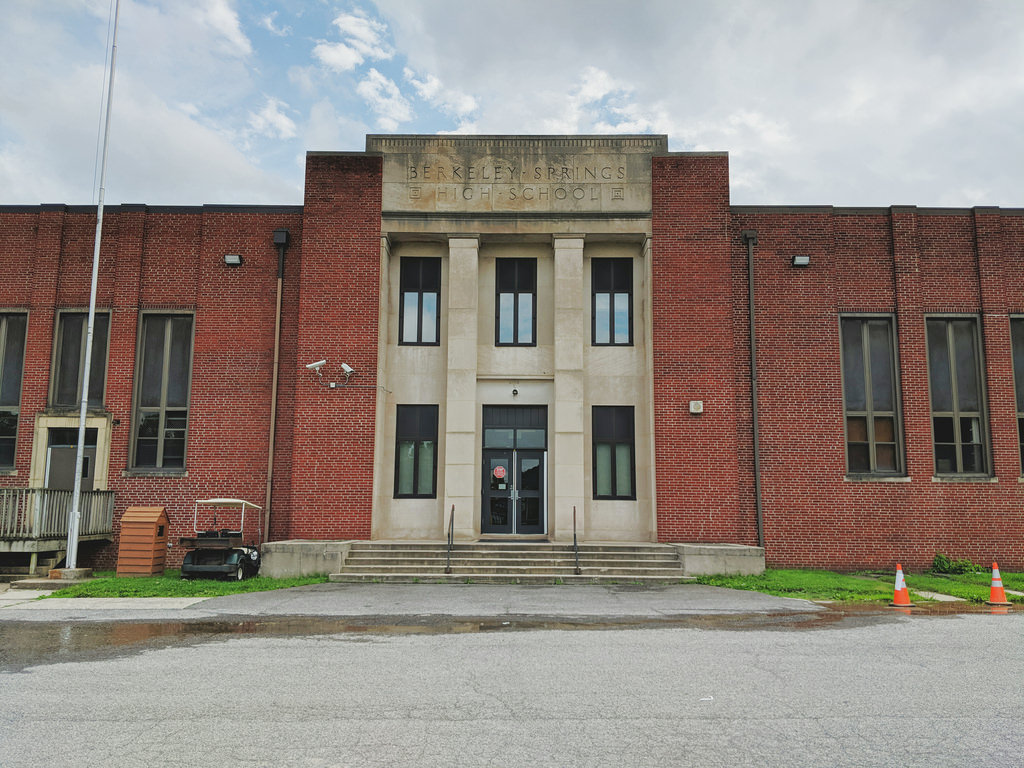 The original façade of Berkeley Springs High School in Berkeley Springs, West Virginia, United States. Built in 1939 in the Art Deco style with brick and local Ridgeley sandstone.